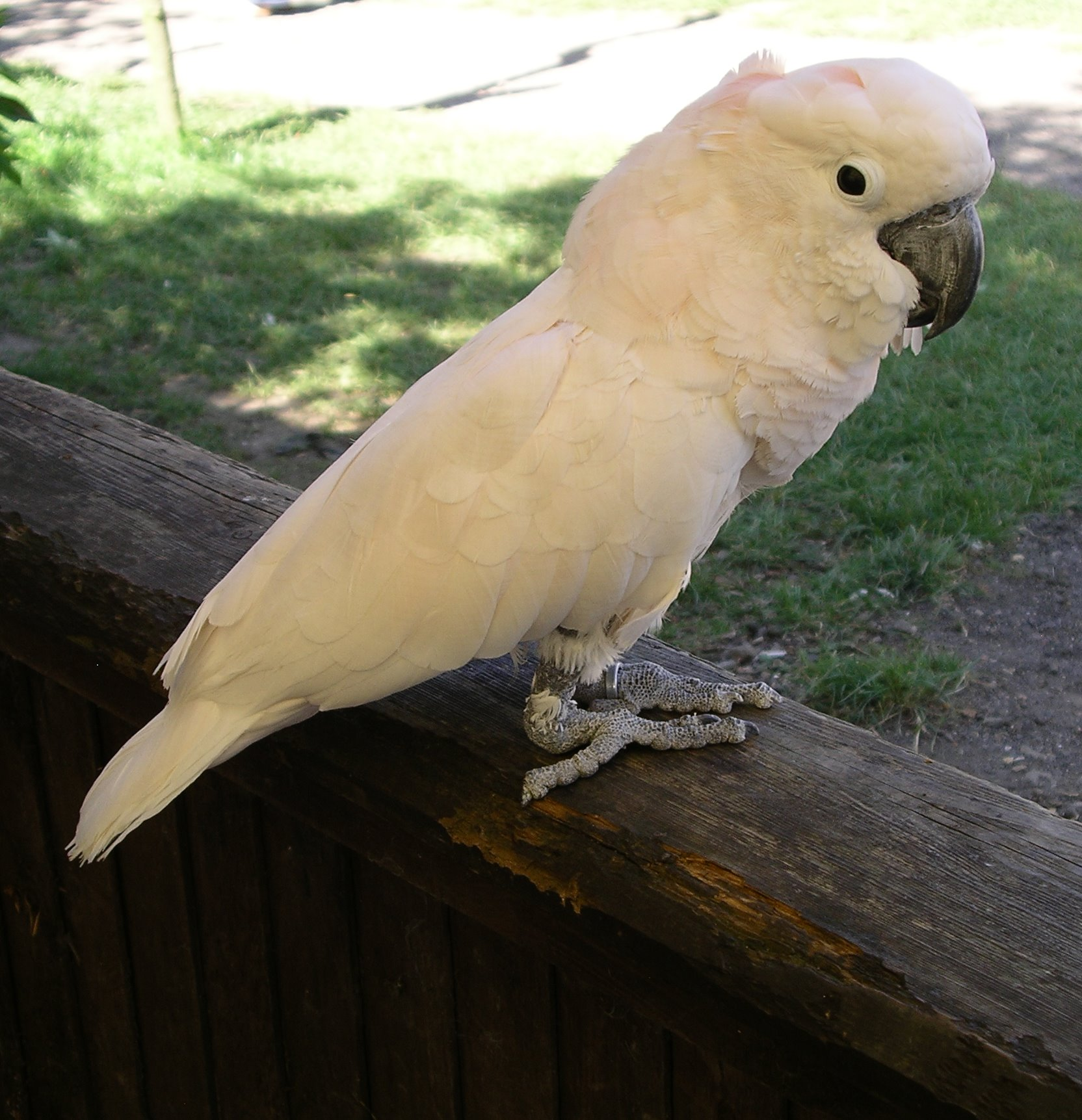 photo of Moluccan Cockatoo in Tropical Birdland, Leicestershire, England.